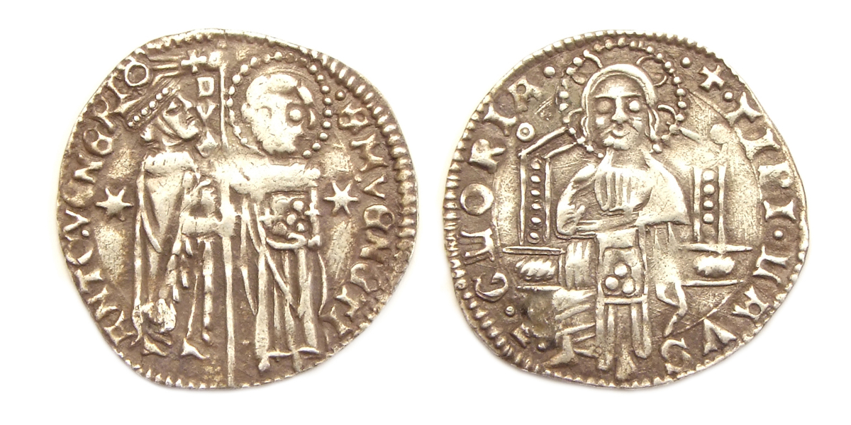 Republic of Venice, Grosso or "Matapan" of Antonio Venier, Doge of Venice (1382-1400). Obverse: Doge, standing on left, wearing corno ducale, receiving tall flag from St. Mark, standing on right. DVX down flag staff, stars in left and right fields. Reverse: Nimbate Christ enthroned facing, holding gospels in lap.